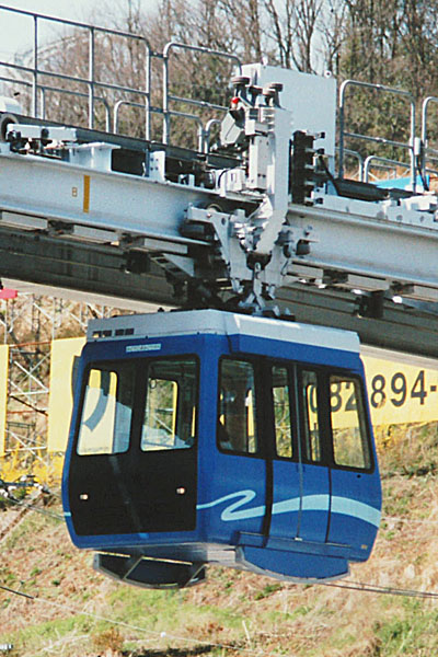 Car of Hiroshima Short Distance Transit Seno Line (Skyrail). 広島短距離交通瀬野線(スカイレール)の車両。